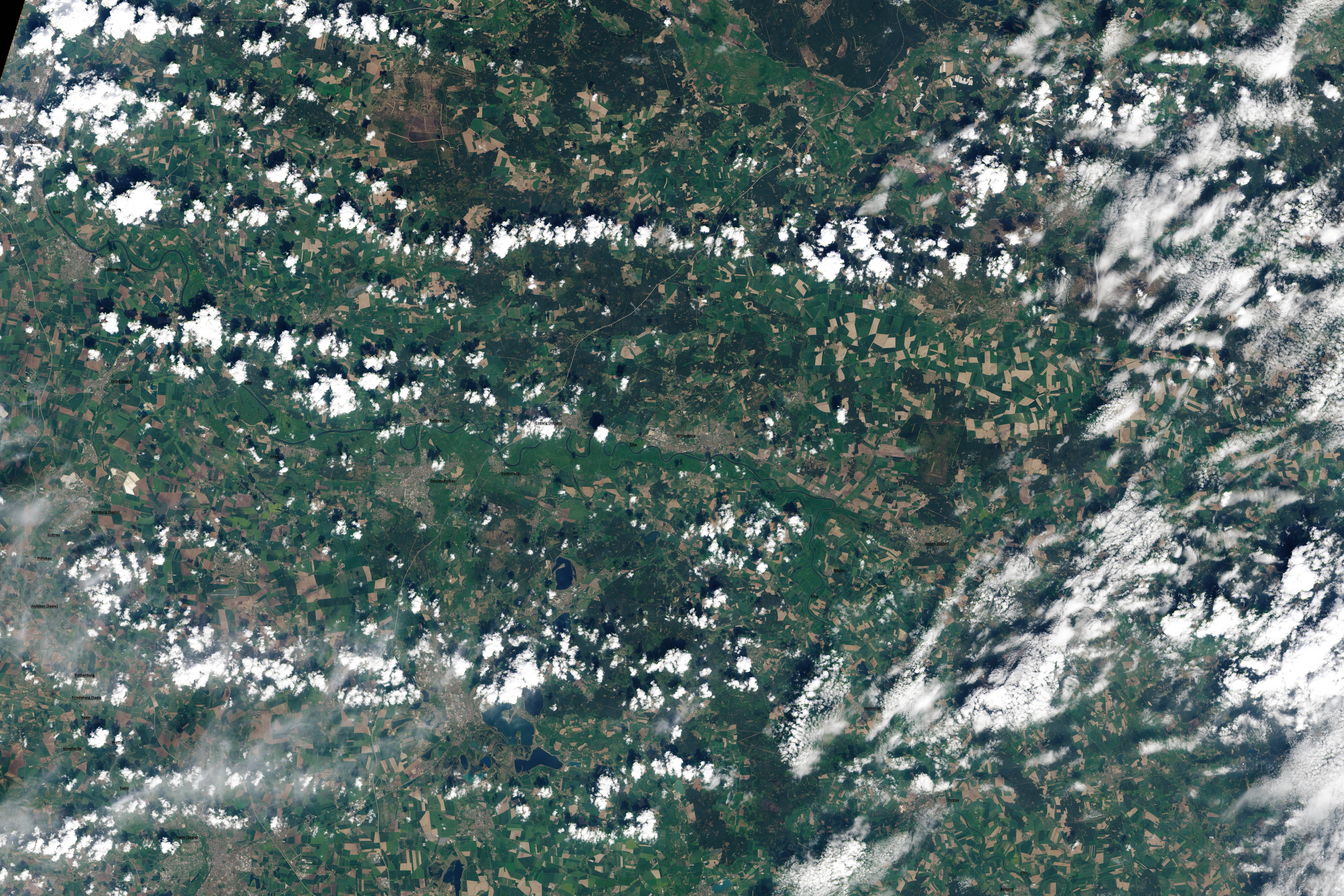 Satellite View of the rivers Elbe and Saale